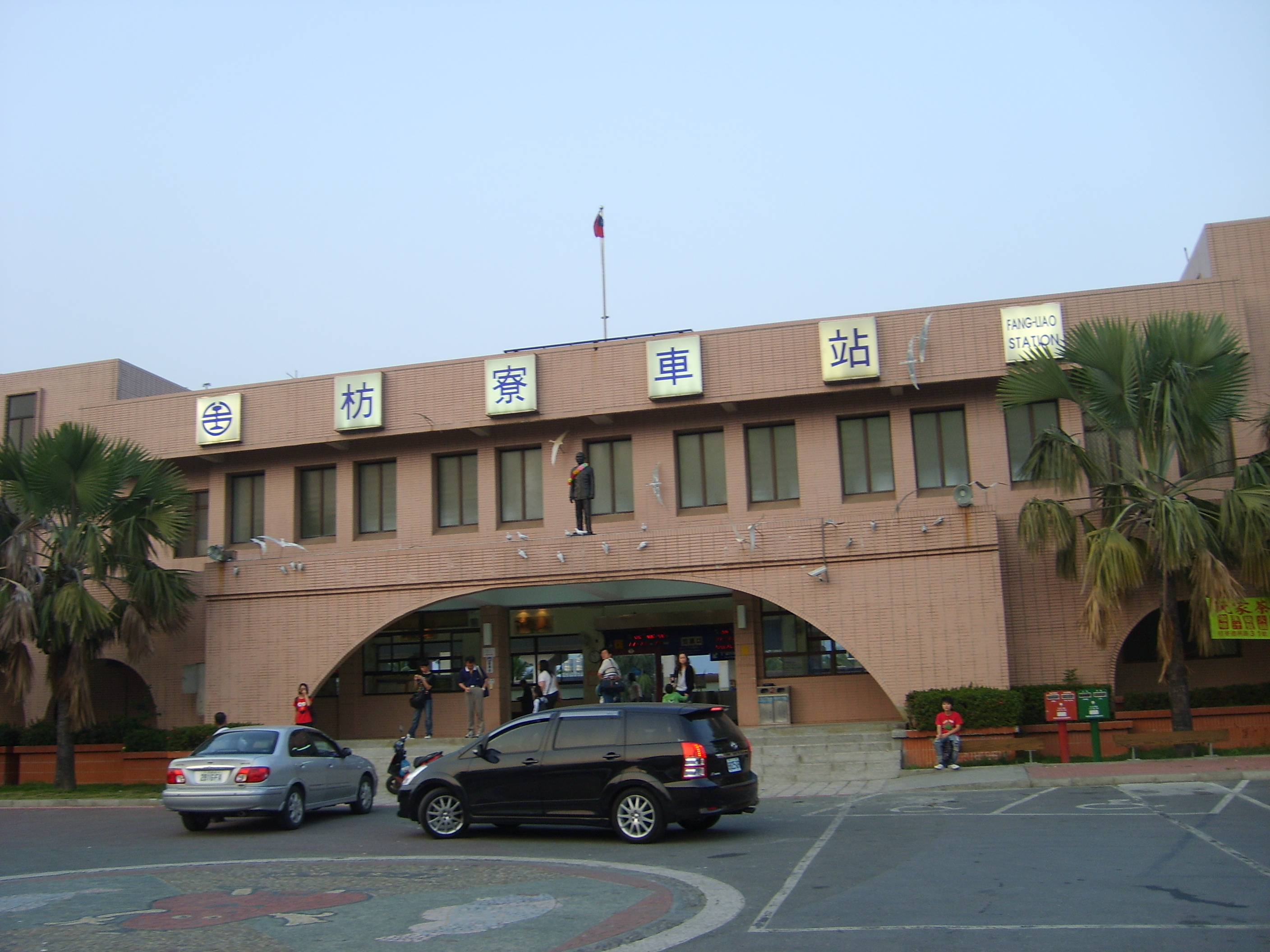 TRA Fangliao Station - Fangliao Township, Pingtung County, Taiwan